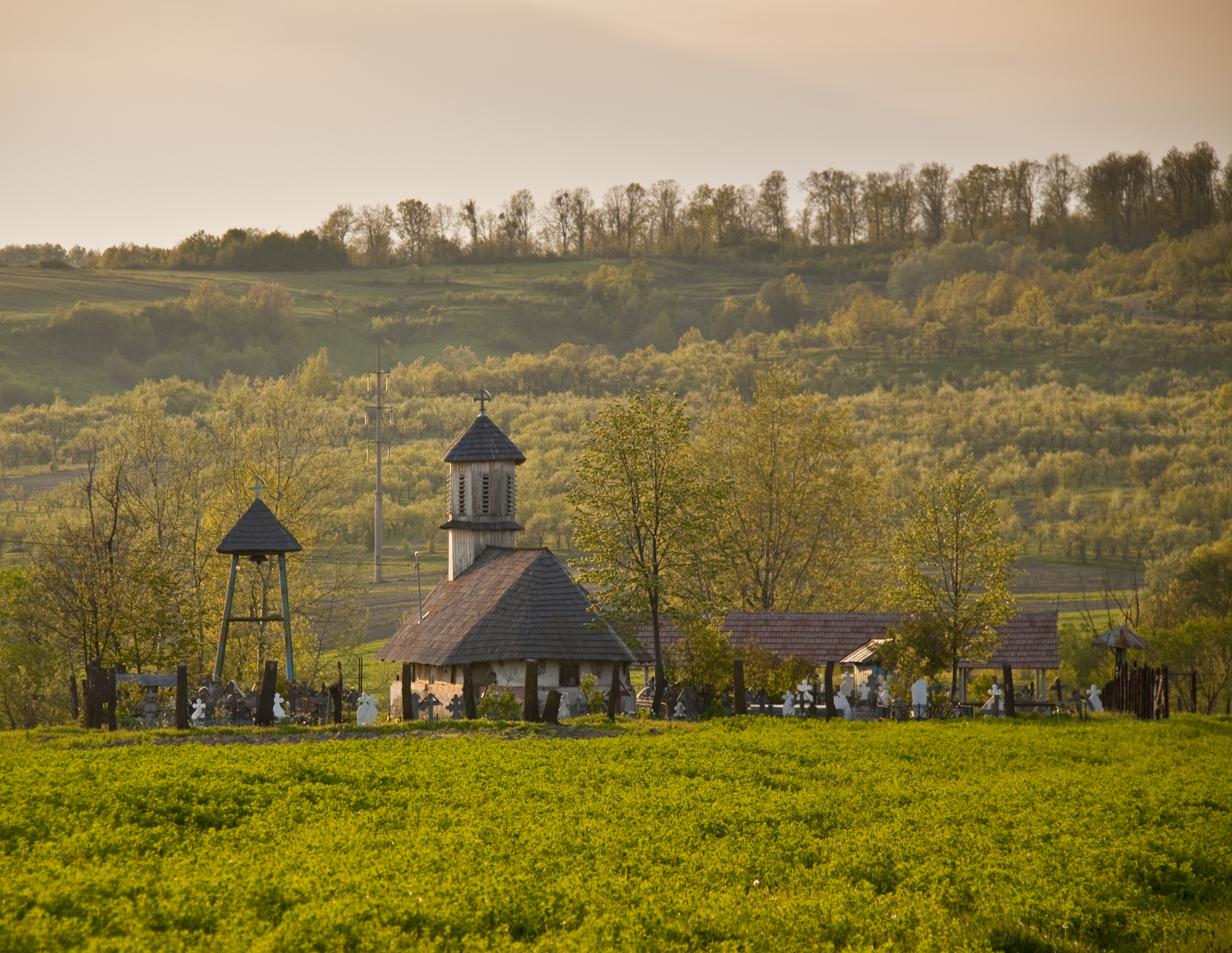 Târgu Gânguleşti, Vâlcea county, Romania: the wooden chuech.